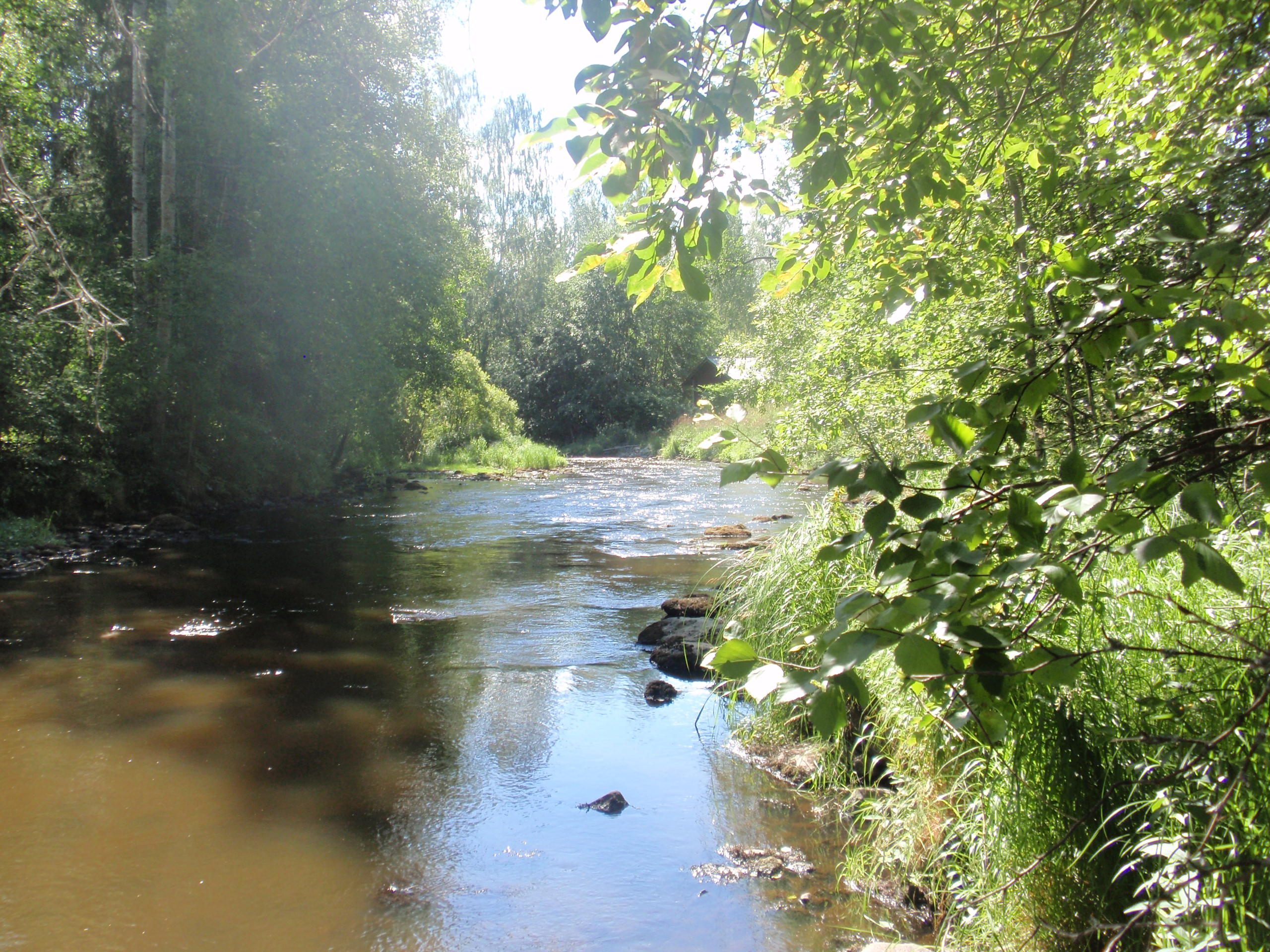 Jaara river, Kiikoinen, Finland.